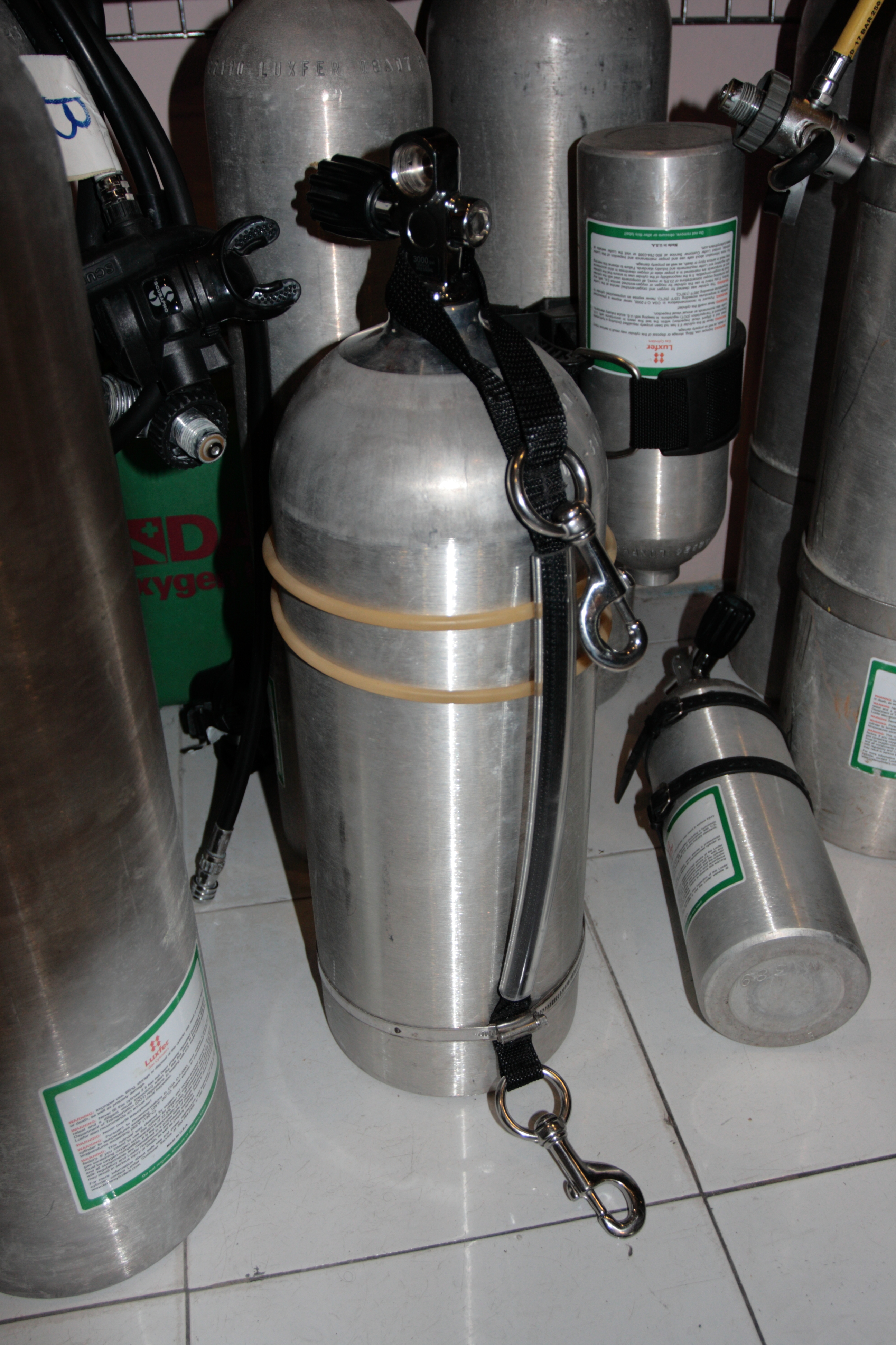 Example of stage tank with OMS thing